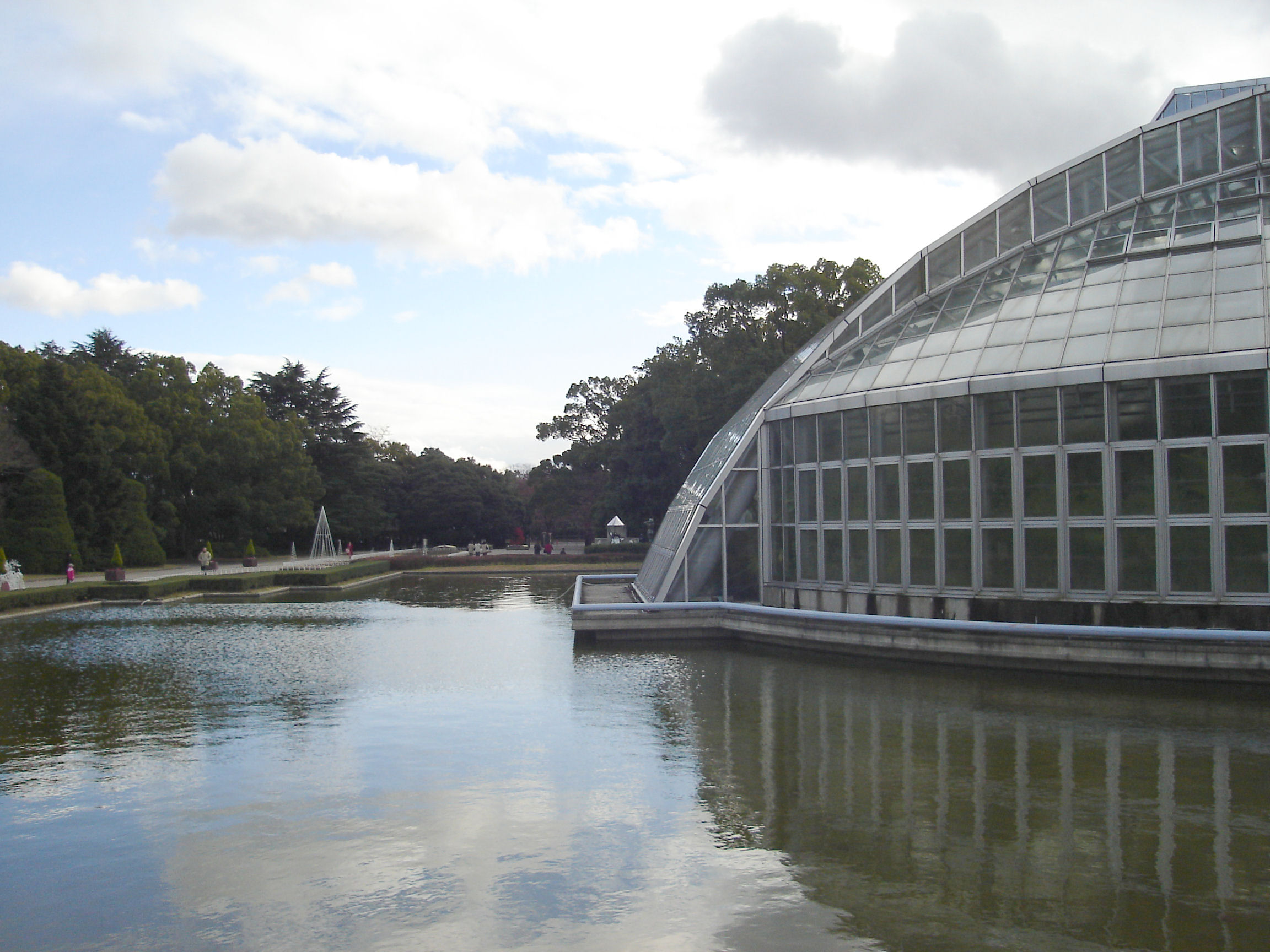 The kyoto botanical garden , kyoto japan